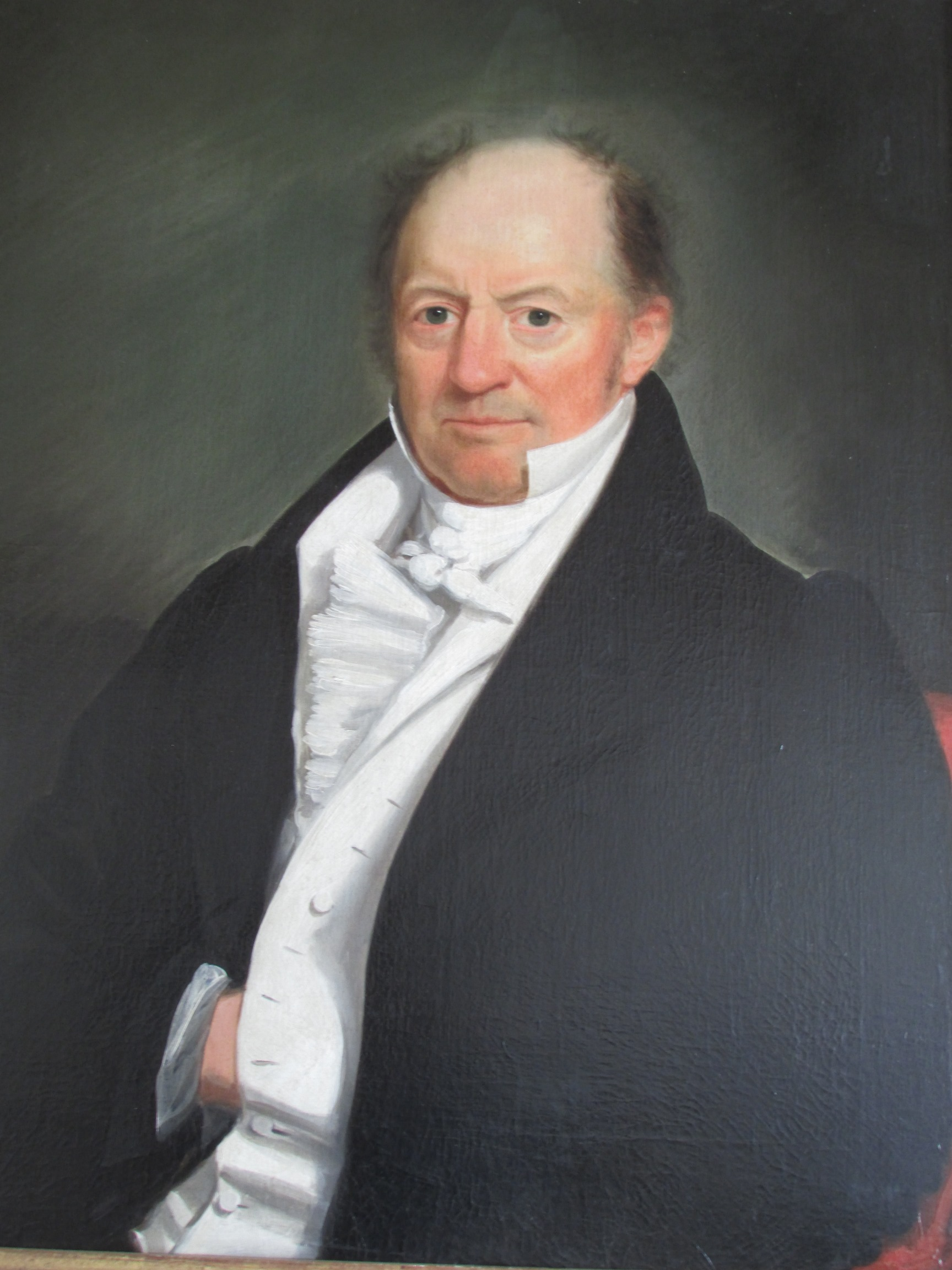 Nicoll Floyd, 1831. Shepard Alonzo Mount, oil on canvas. William Floyd Estate, National Park Service.